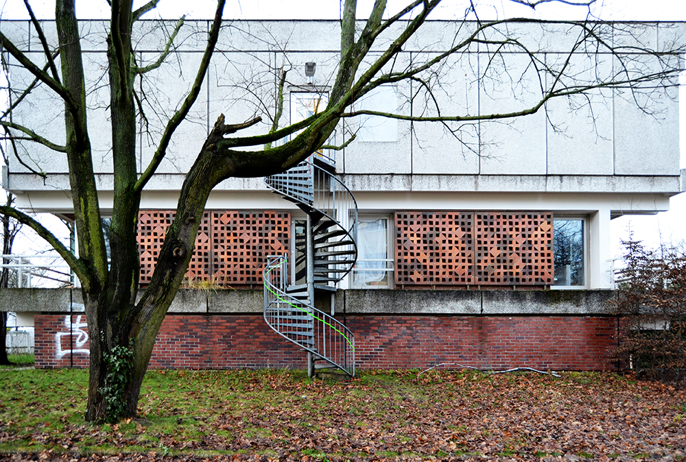 Side view of embassy showing ceramic screens by Hedwig Bollhagen